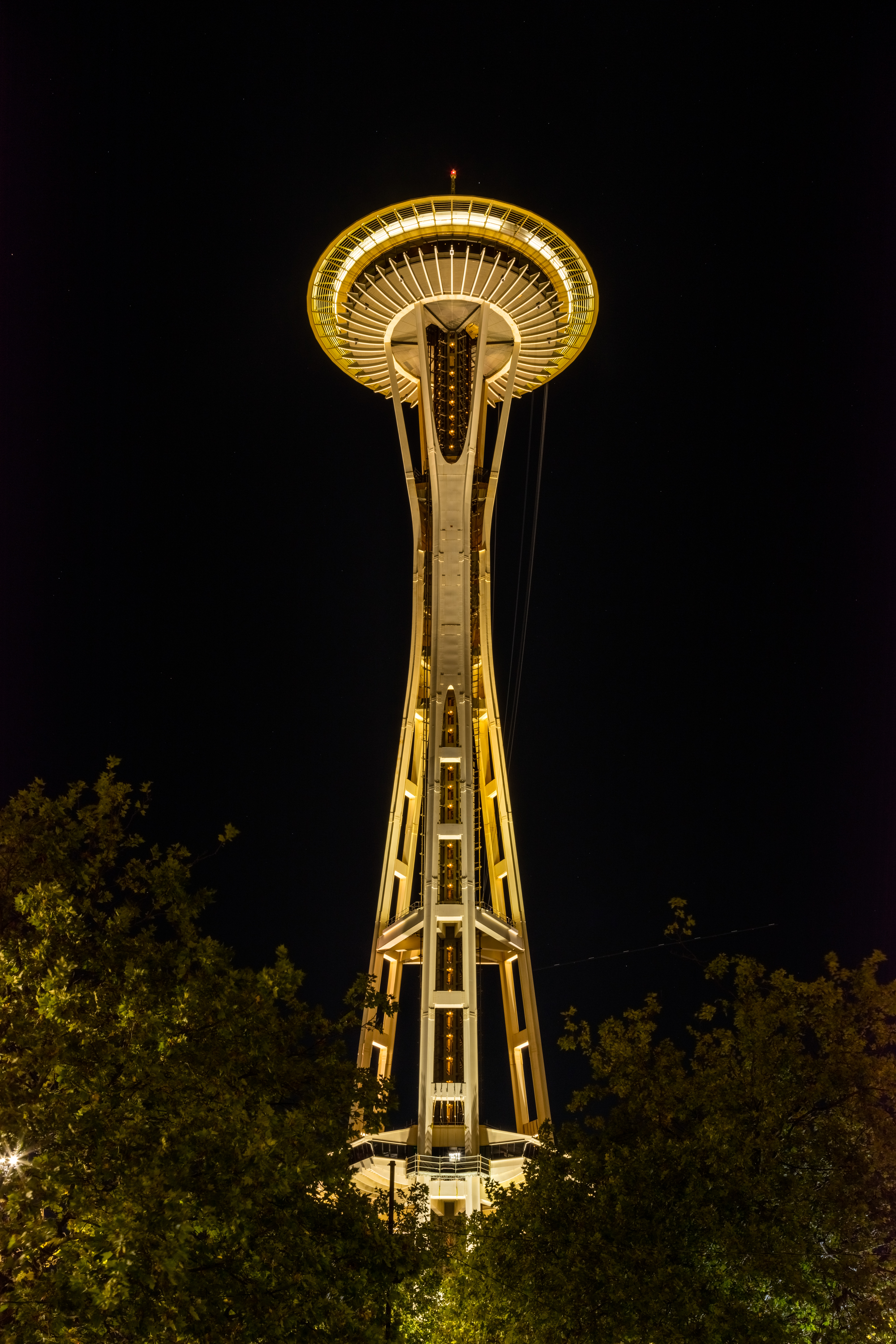 Space Needle, Seattle, Washington, USA